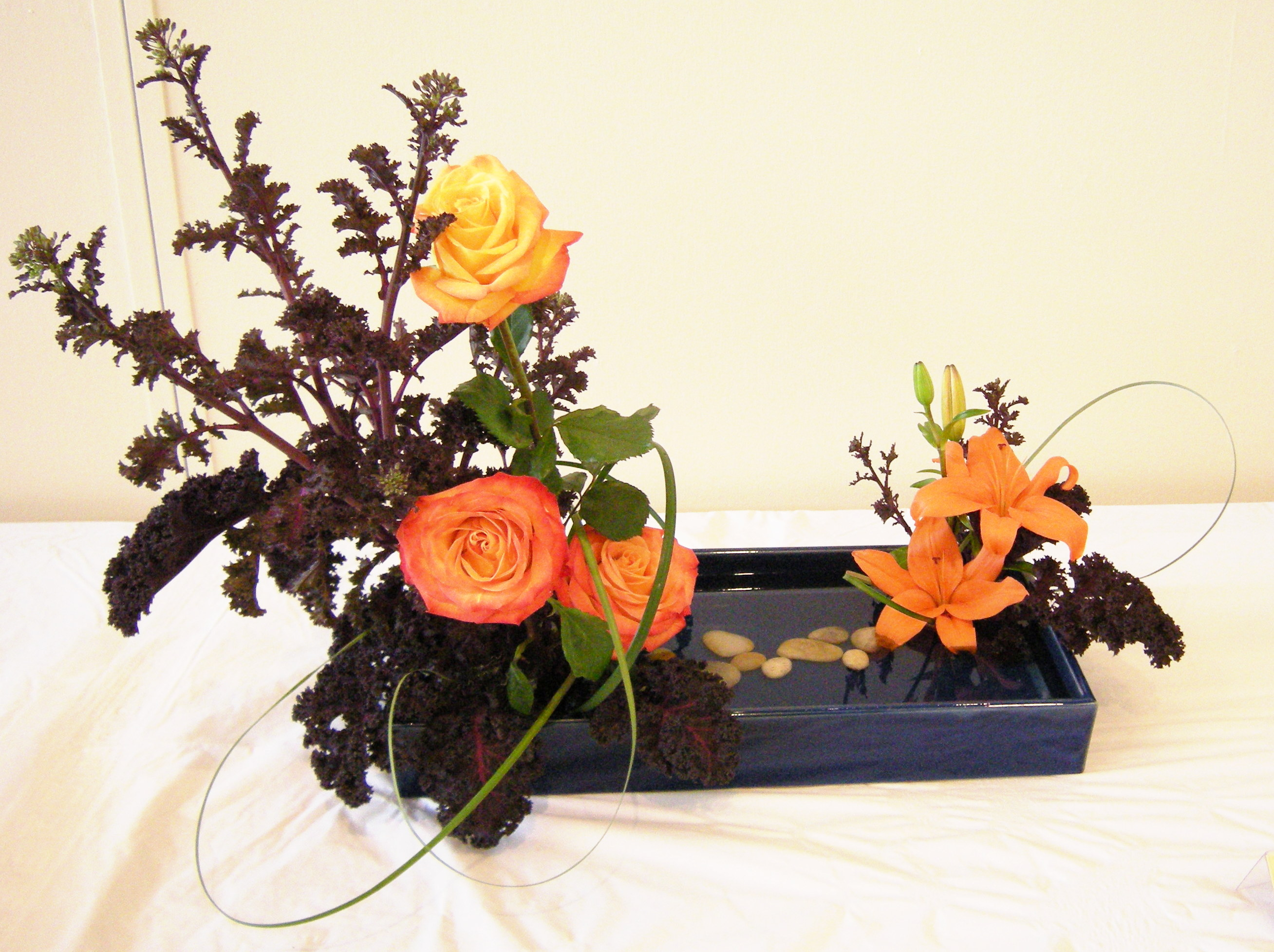 Ikebana by Rachel Martin on display at Seattle Center, Seattle, Washington as part of the 2008 Cherry Blossom Festival.